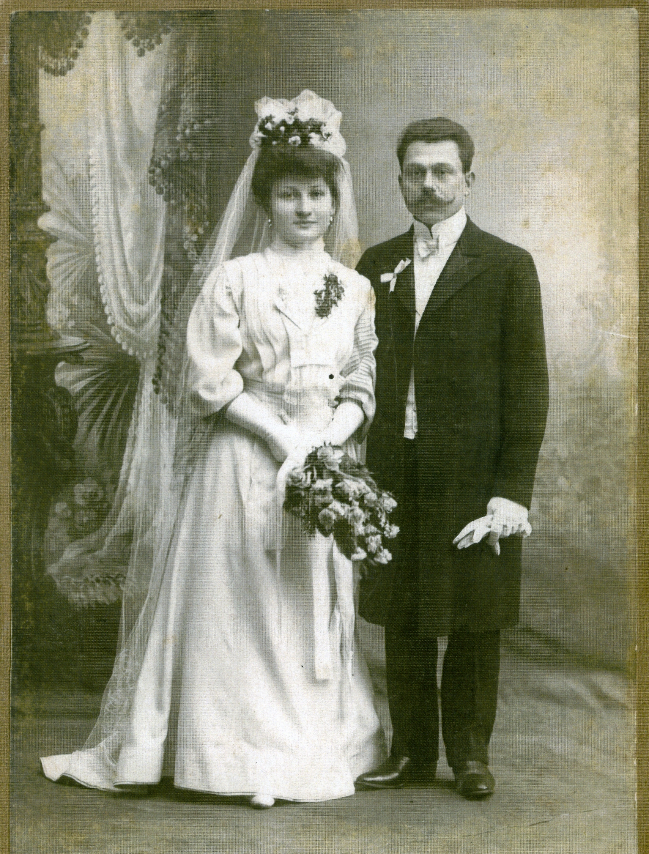 Maria (Brzozowski) end Stanislaw Krzeminski - wedding photograph - Noworadomsk 1905